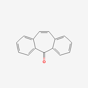 5H-Dibenzo[a,d]cyclohepten-5-one; 5-Dibenzosuberenone